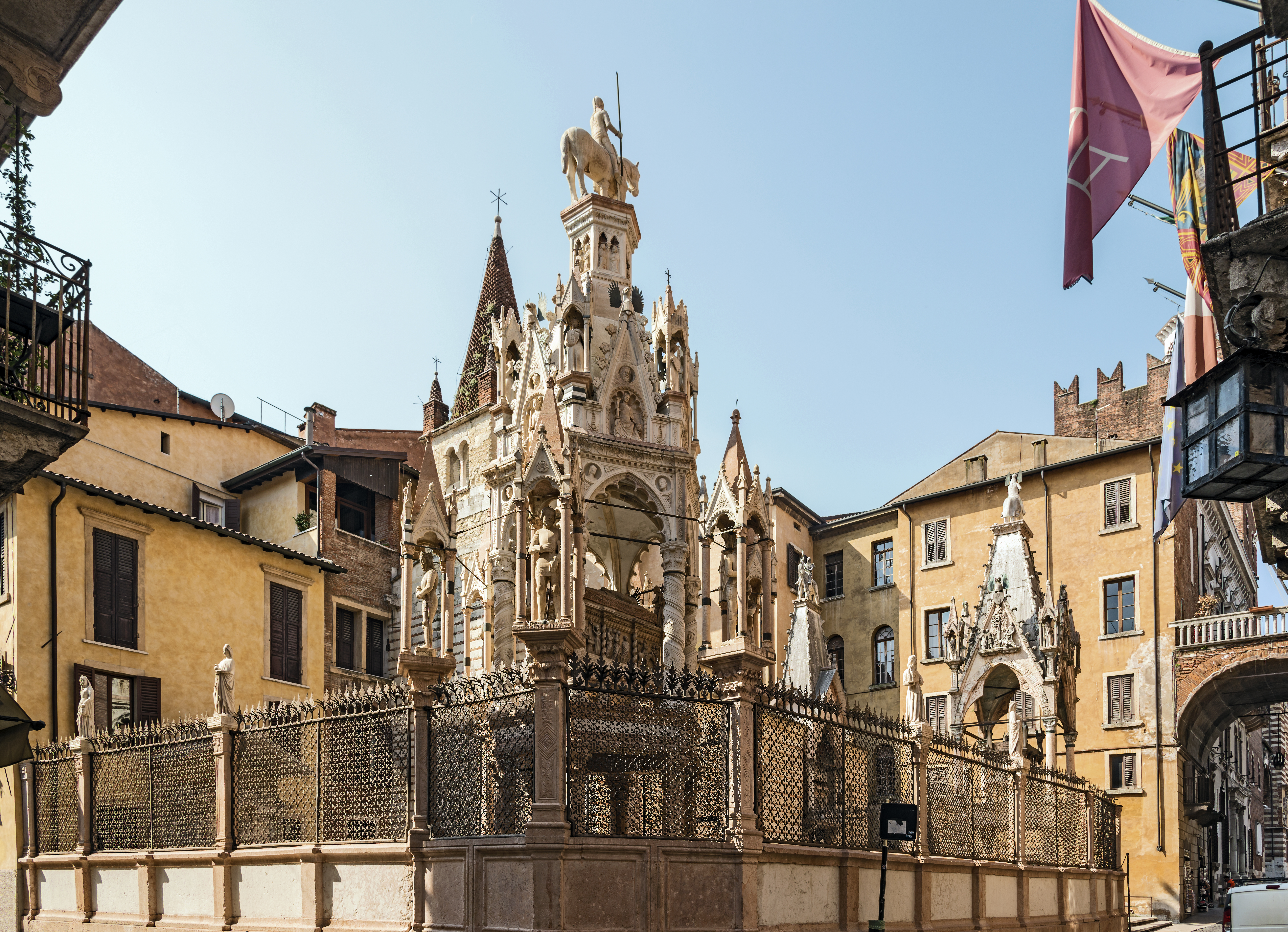 Scaliger Tombs in Verona. Tomb of Cansignorio the foreground, the Santa Maria Antica church and the tomb of Cangrande I della Scala, and right the tomb of Mastino II.